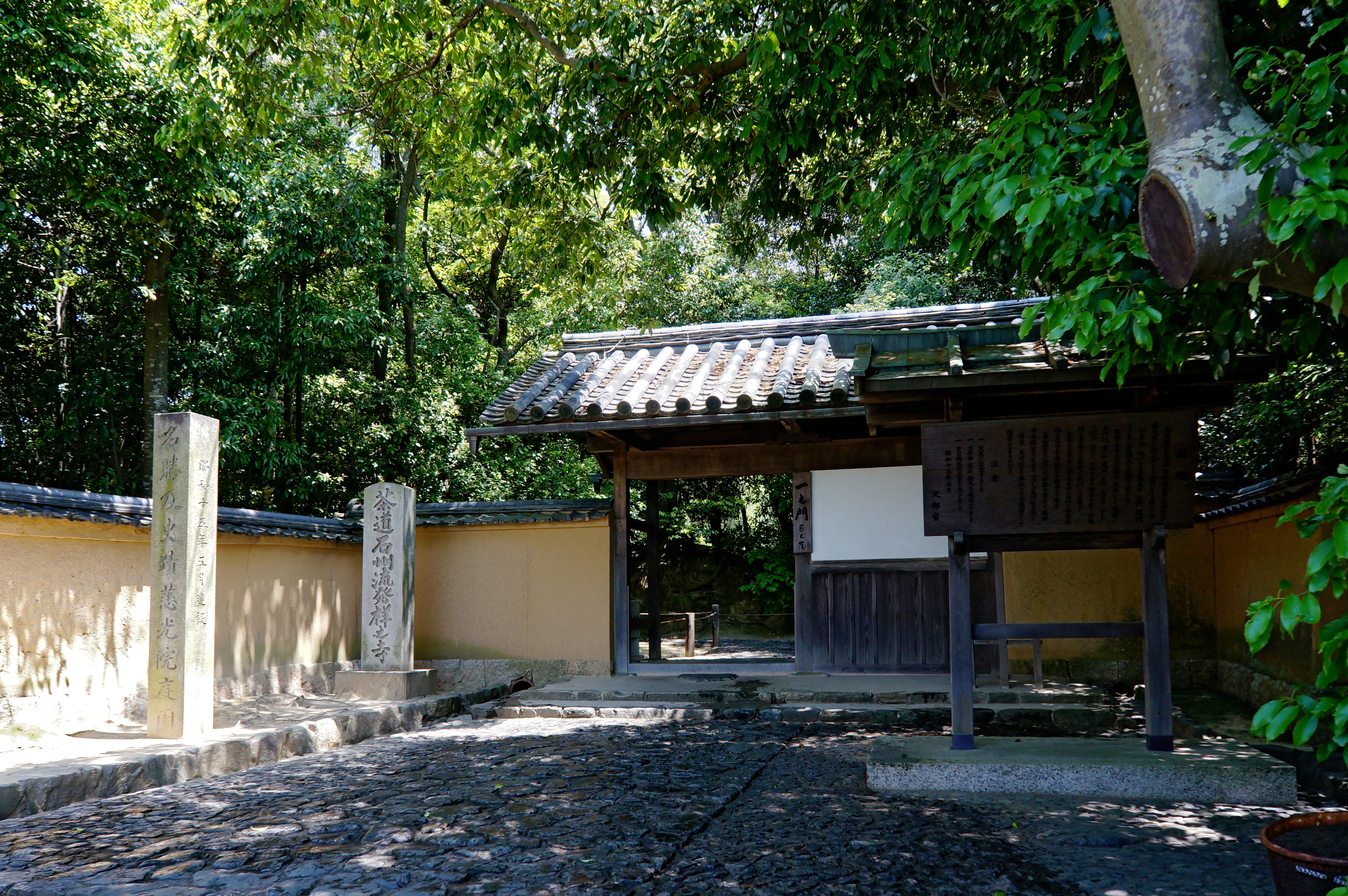 Jikō-in in Yamatokoriyama, Nara prefecture, Japan.